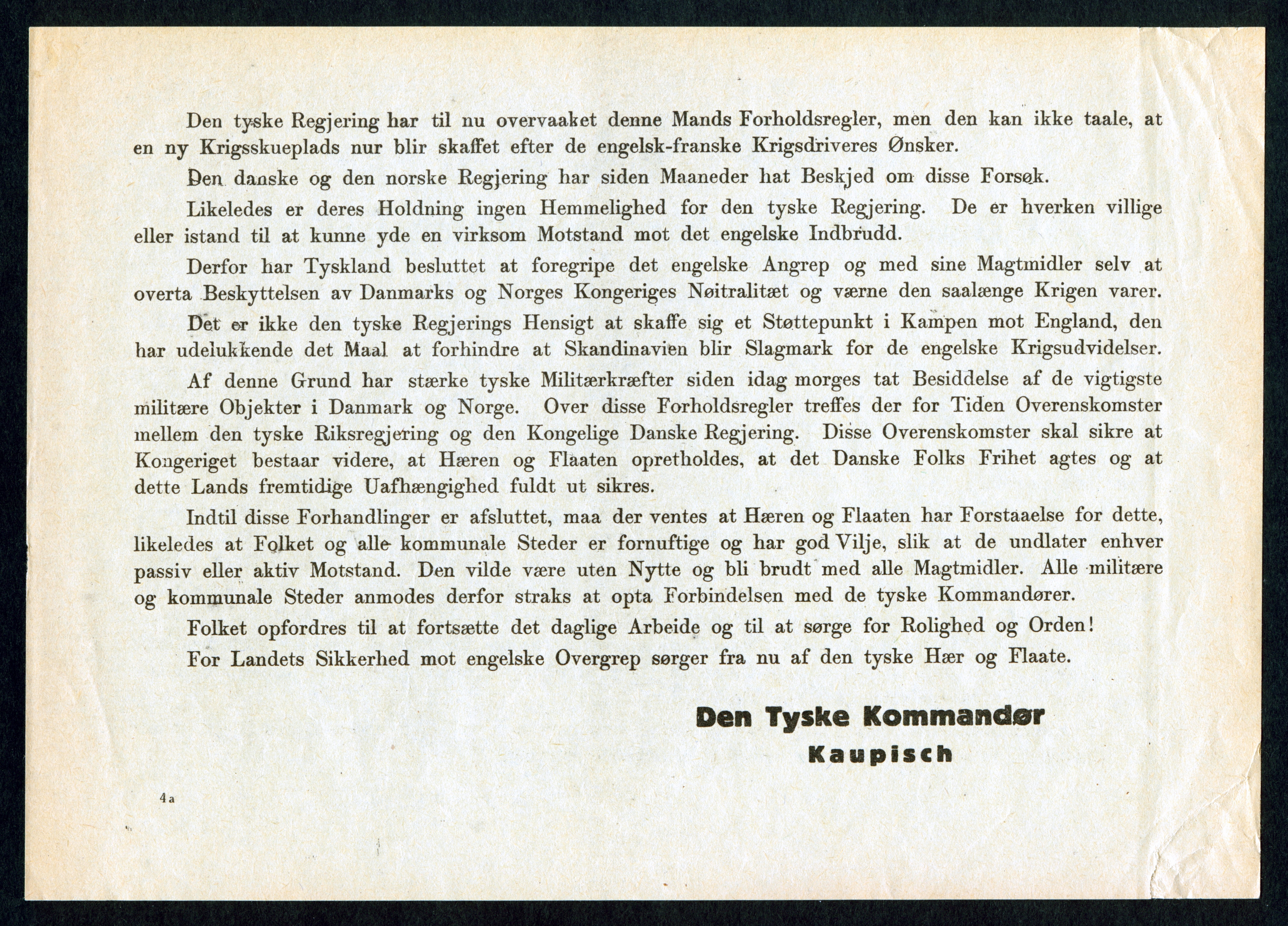 "Oprop!" (Outcry! / Proclamation!) The 9th of April 1940 was a shitty day for the Danish Kingdom. This is the backside of a leaflet dropped from a german aircraft bomber on the day of invasion. The government capitulated later the same day... For many years after, the Danish defense strategy was based on the phrase "Never again an April 9th!" This document, written in a peculiar Google Translate-ish dano-norwegian is probably the single most known piece of paper in the Denmark. It's from my fathers collection, and he was 16 at the end of the war. Had it lasted a year or two longer, it is likely he would have been subject to enforced conscription in the german army (SS), since the danish army had been dissolved in 1943.